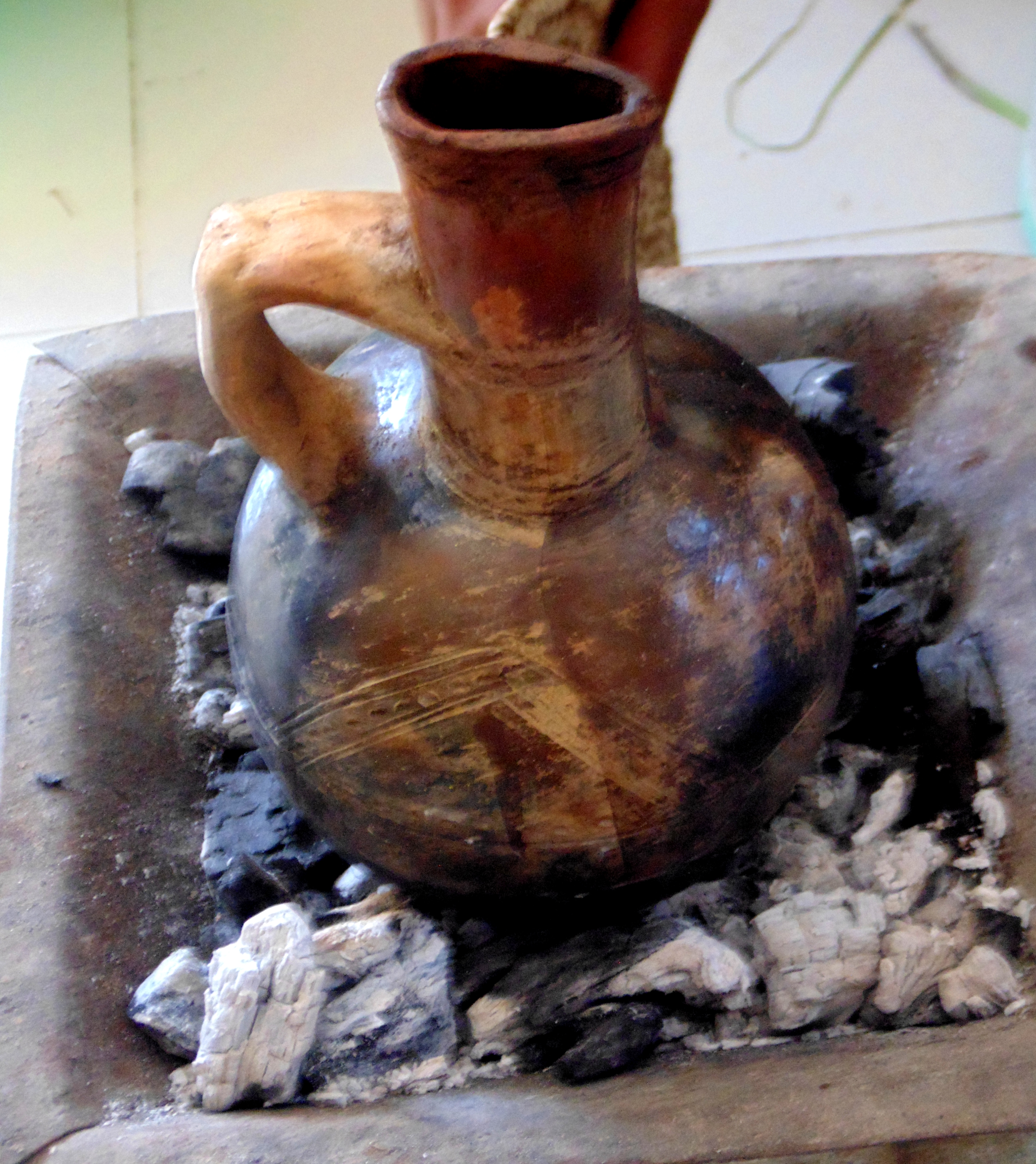 Jebena